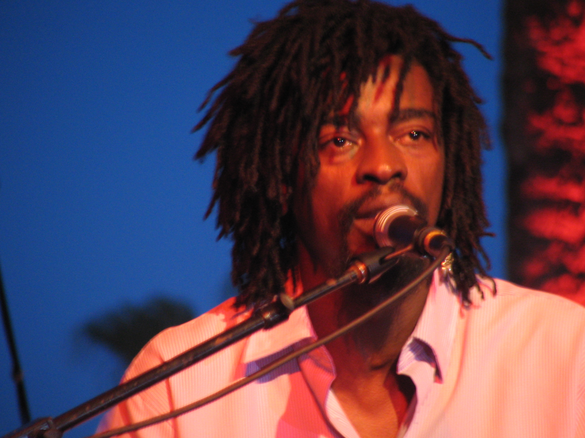 Brazilian singer and composer Seu Jorge.